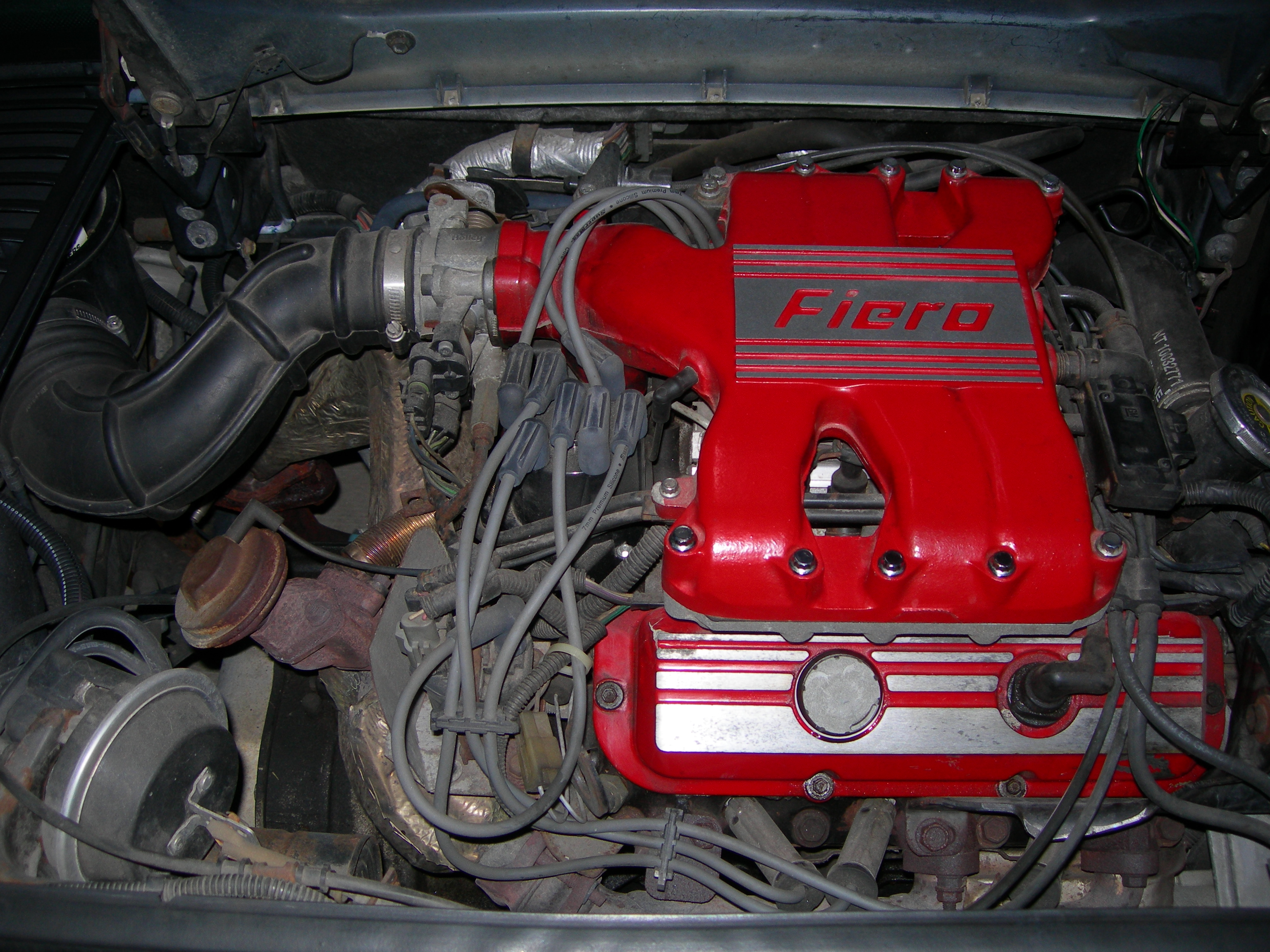 1988 fiero formula motor